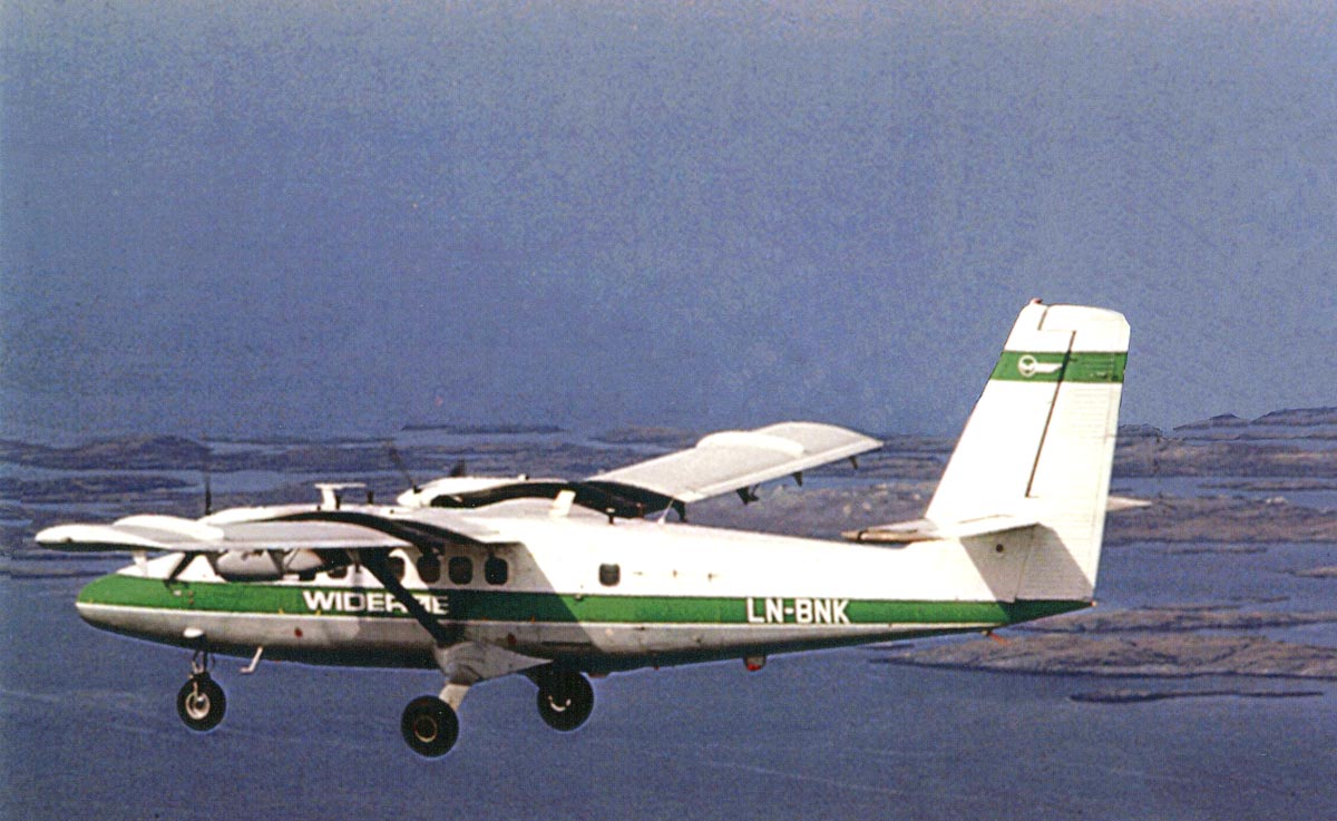 Widerøe Twin Otter LN-BNK near Bodø, Norway 1970.